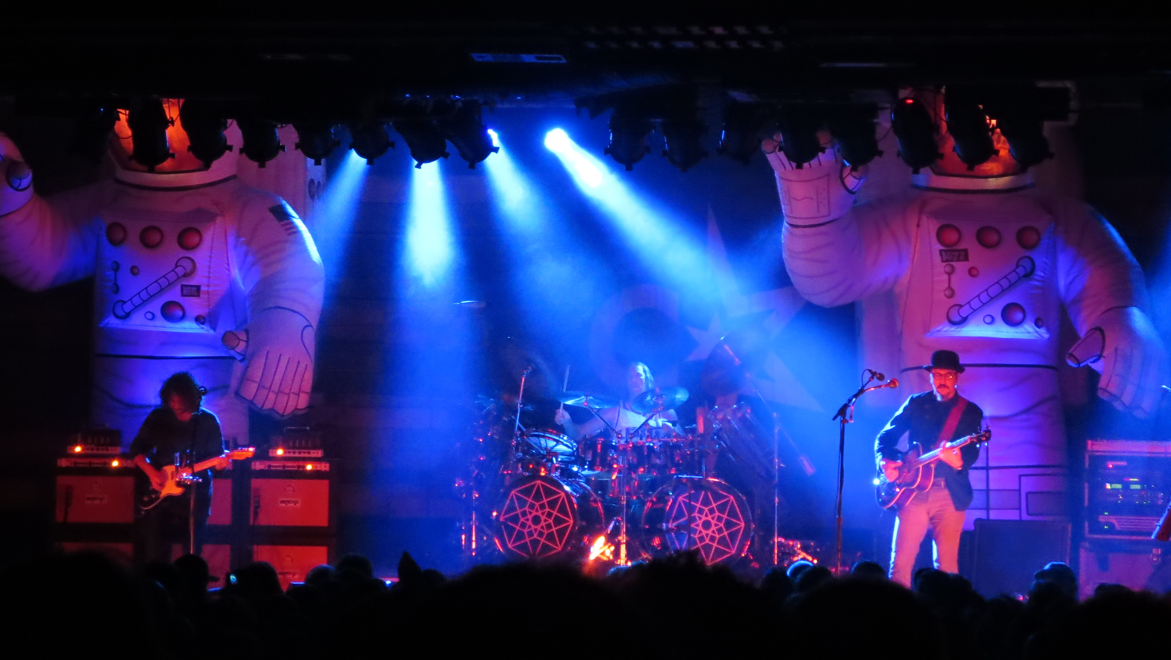 Primus Concord, Chicago 2014